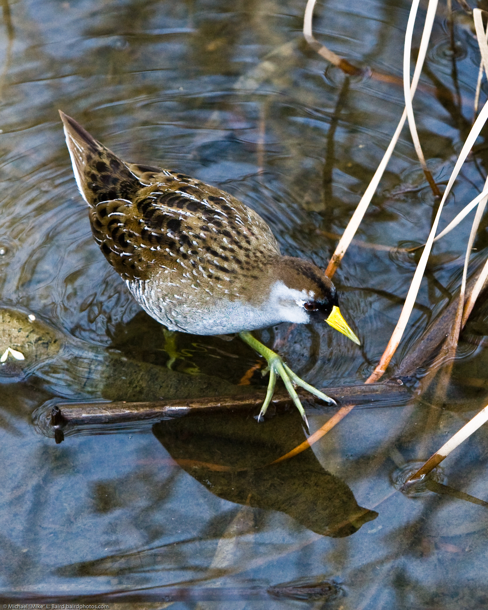 The Sora (Porzana carolina) is a small waterbird, of the family Rallidae, sometimes also referred to as the Sora Rail or Sora Crake; as seen in the Cloisters pond in Morro Bay, CA 11 March 2008